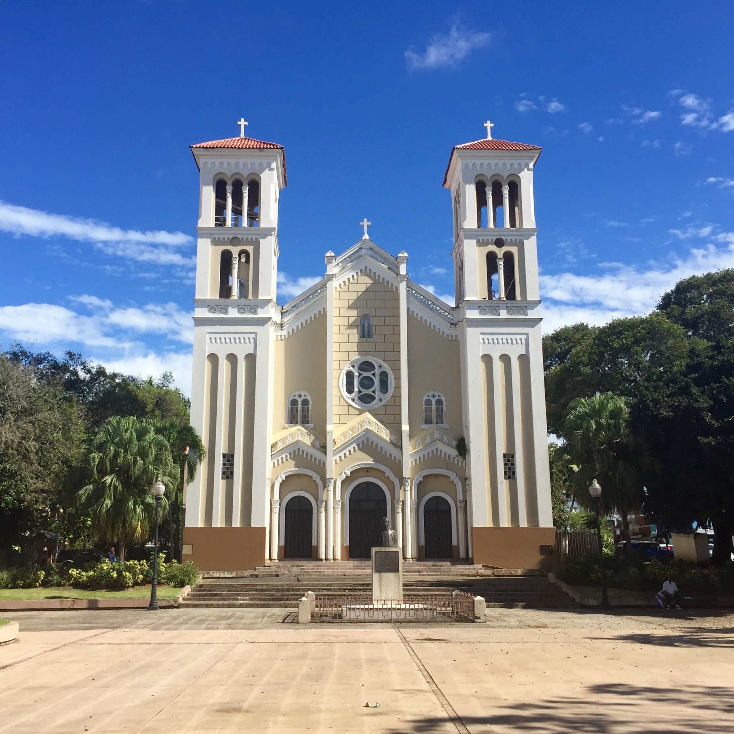 Río Piedras, Puerto Rico